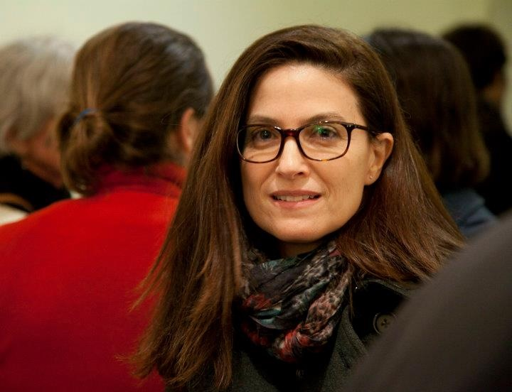 Rachel Albeck-Gidron, from recent years